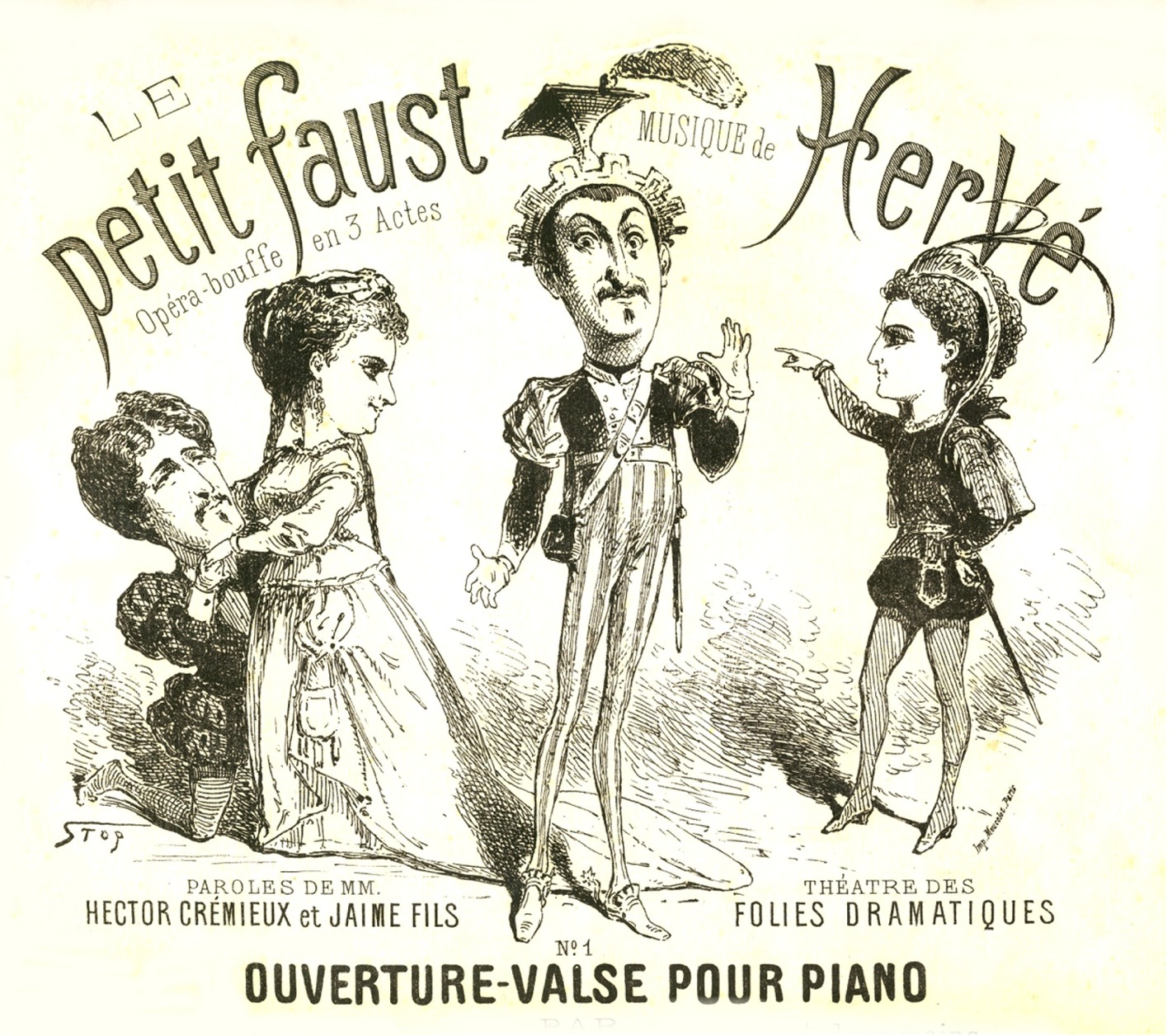 Illustration of operetta procution, Le Petit Faust